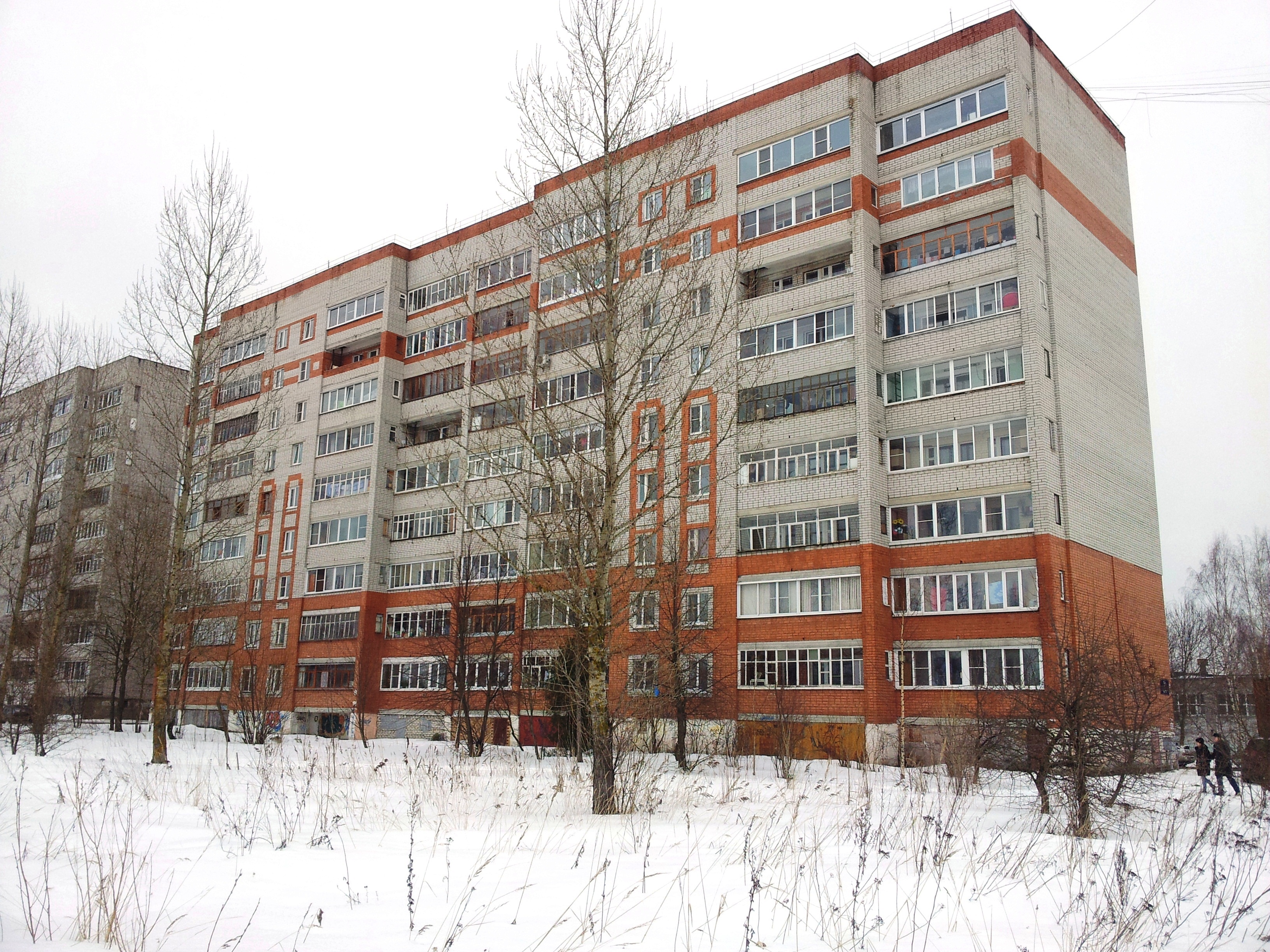 9-storey brick apartment building "114-85" series in Rybinsk, Russia